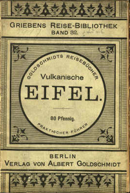 Cover of travel guide book entitled "Die Vulkanische Eifel" published by Albert Goldschmidt of Berlin